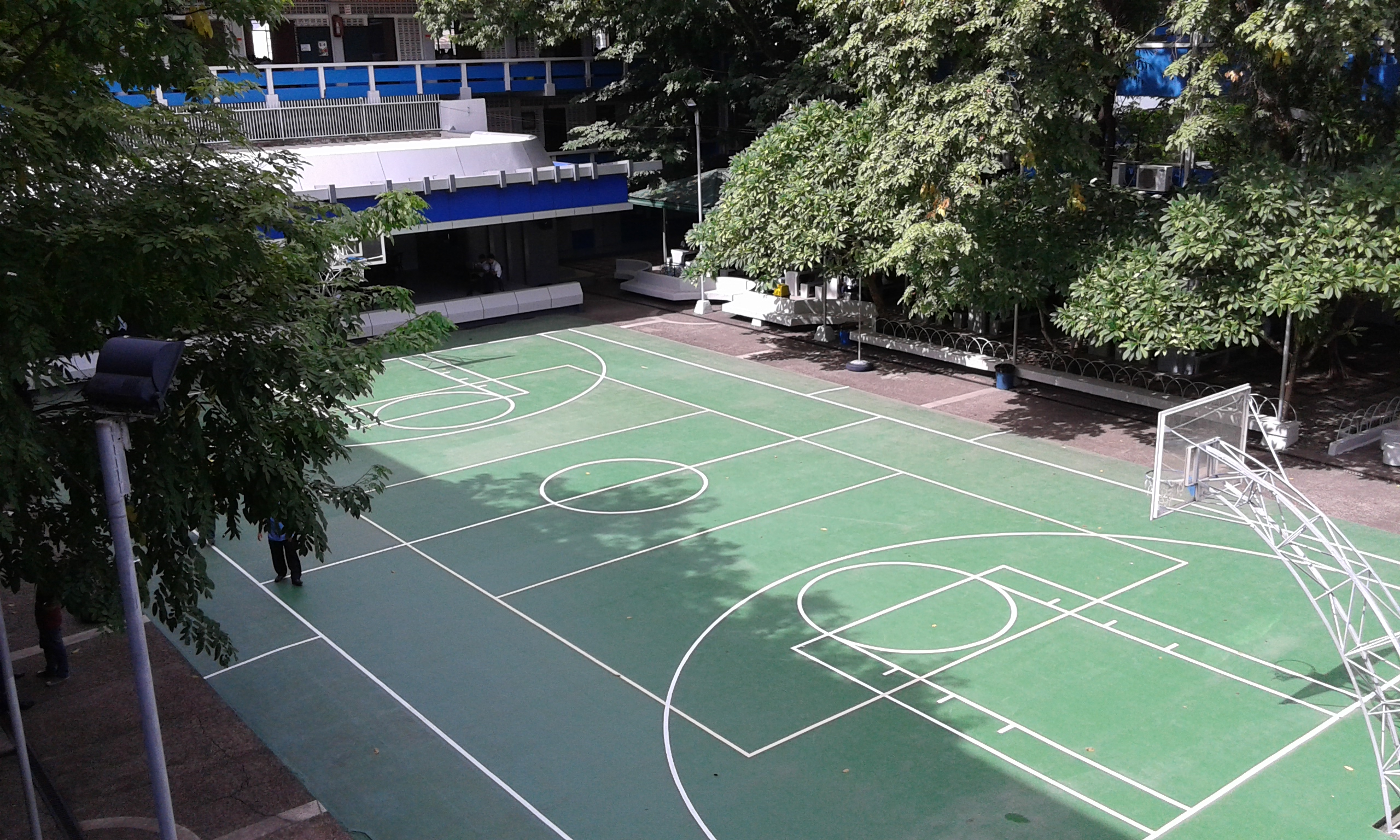 This is my own photo using my phone